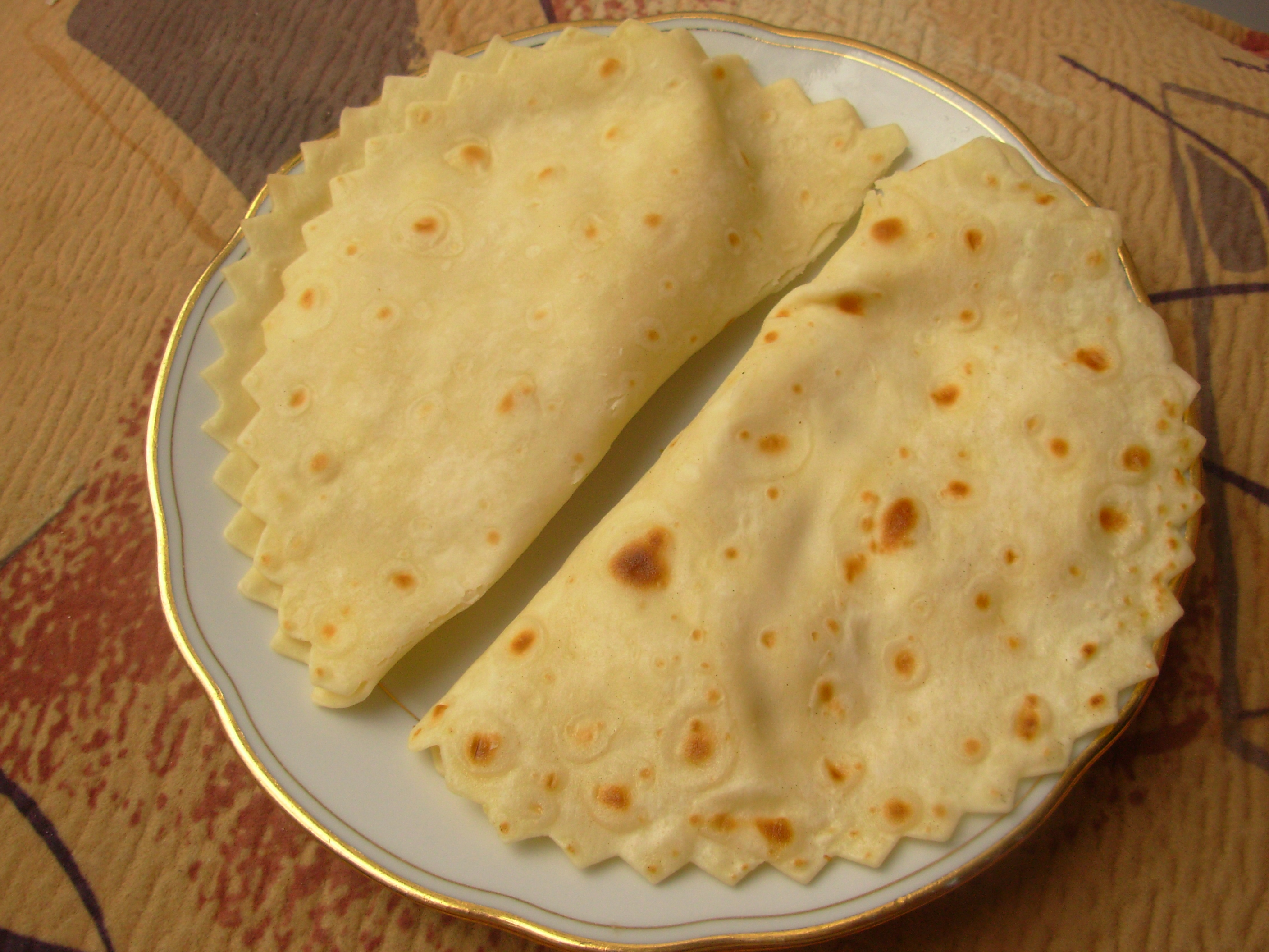 Kistibij